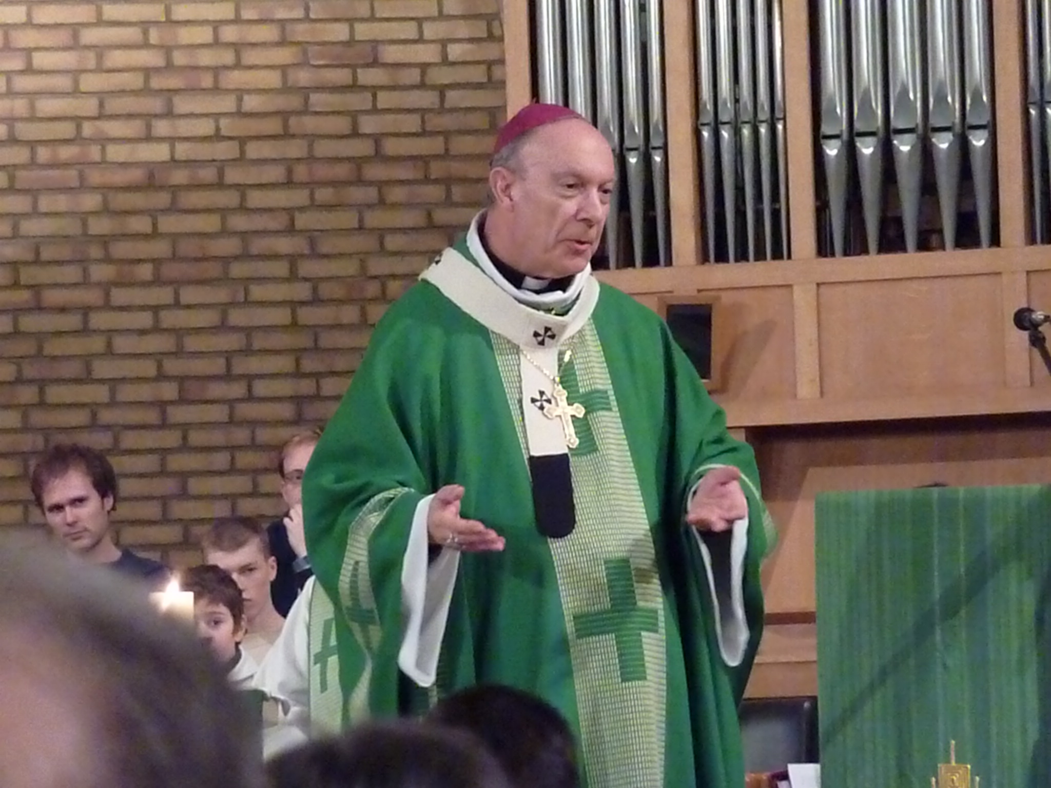 Archbishop André-Joseph Léonard during his visit to the parish of Terbank Heverlee (Leuven) on 11 February 2012.